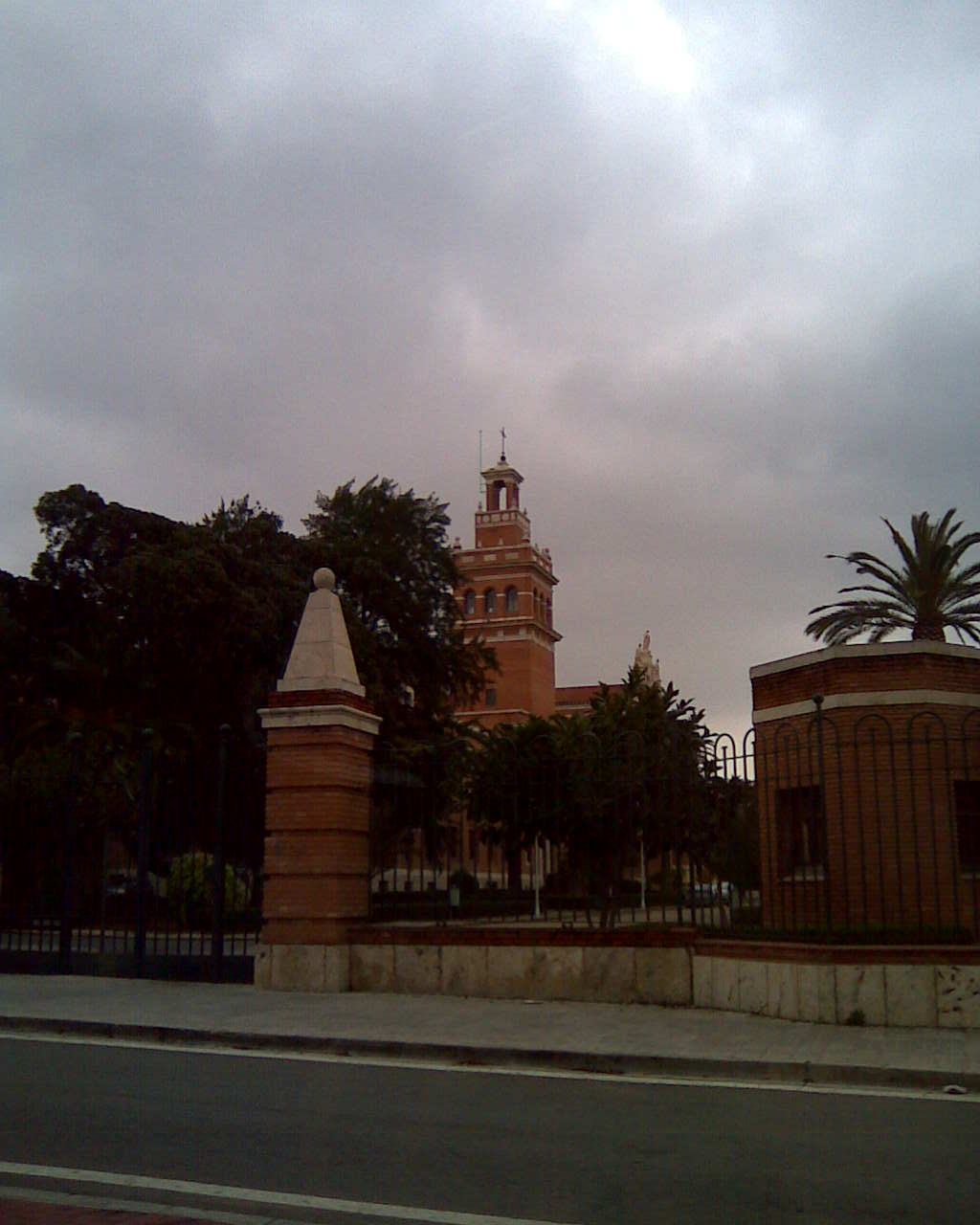 Seminario en Moncada (Valencia)